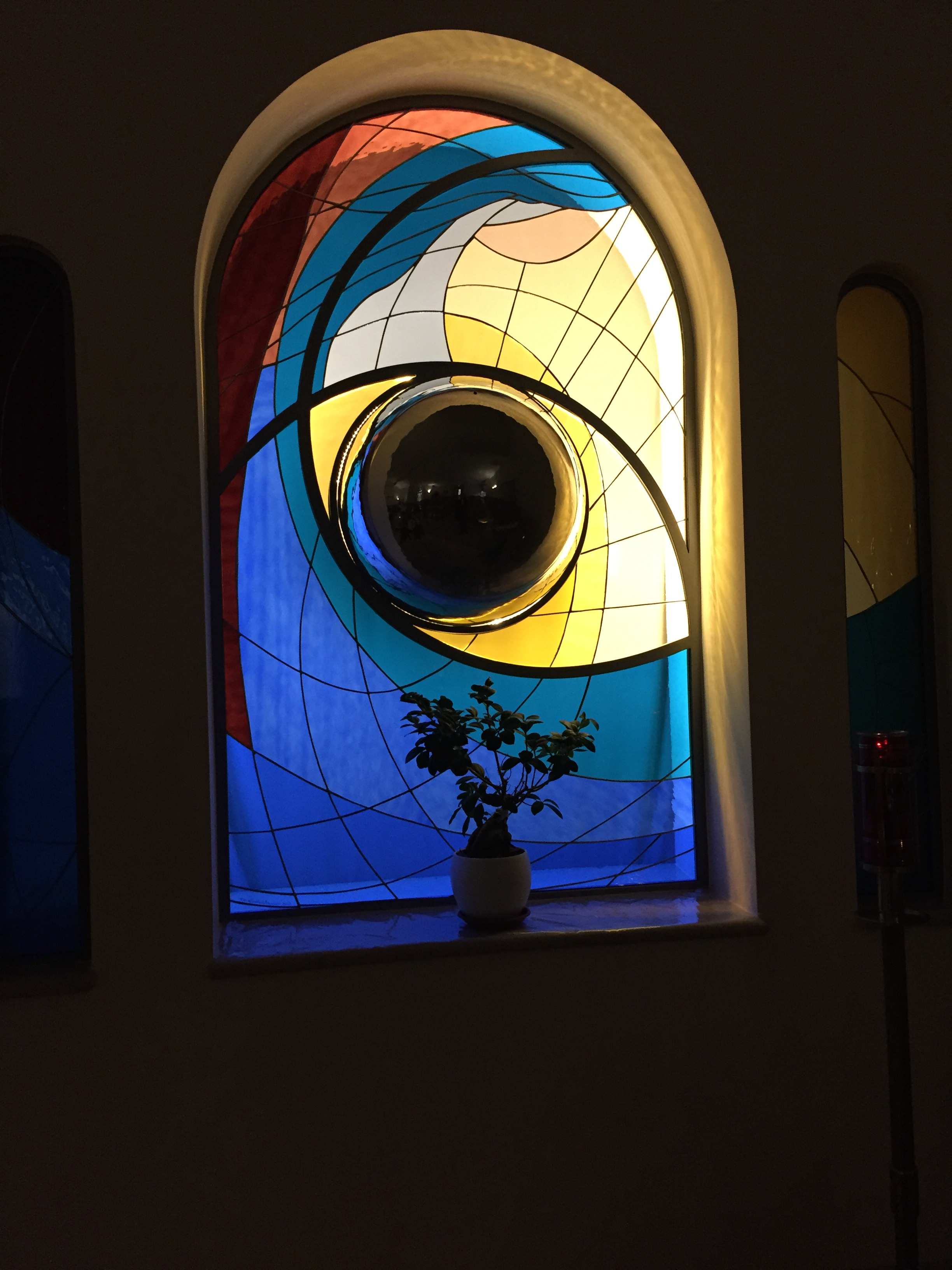 Chiesa del Santissimo Rosario di Pompei (Altamura) - Inside - Monstrance